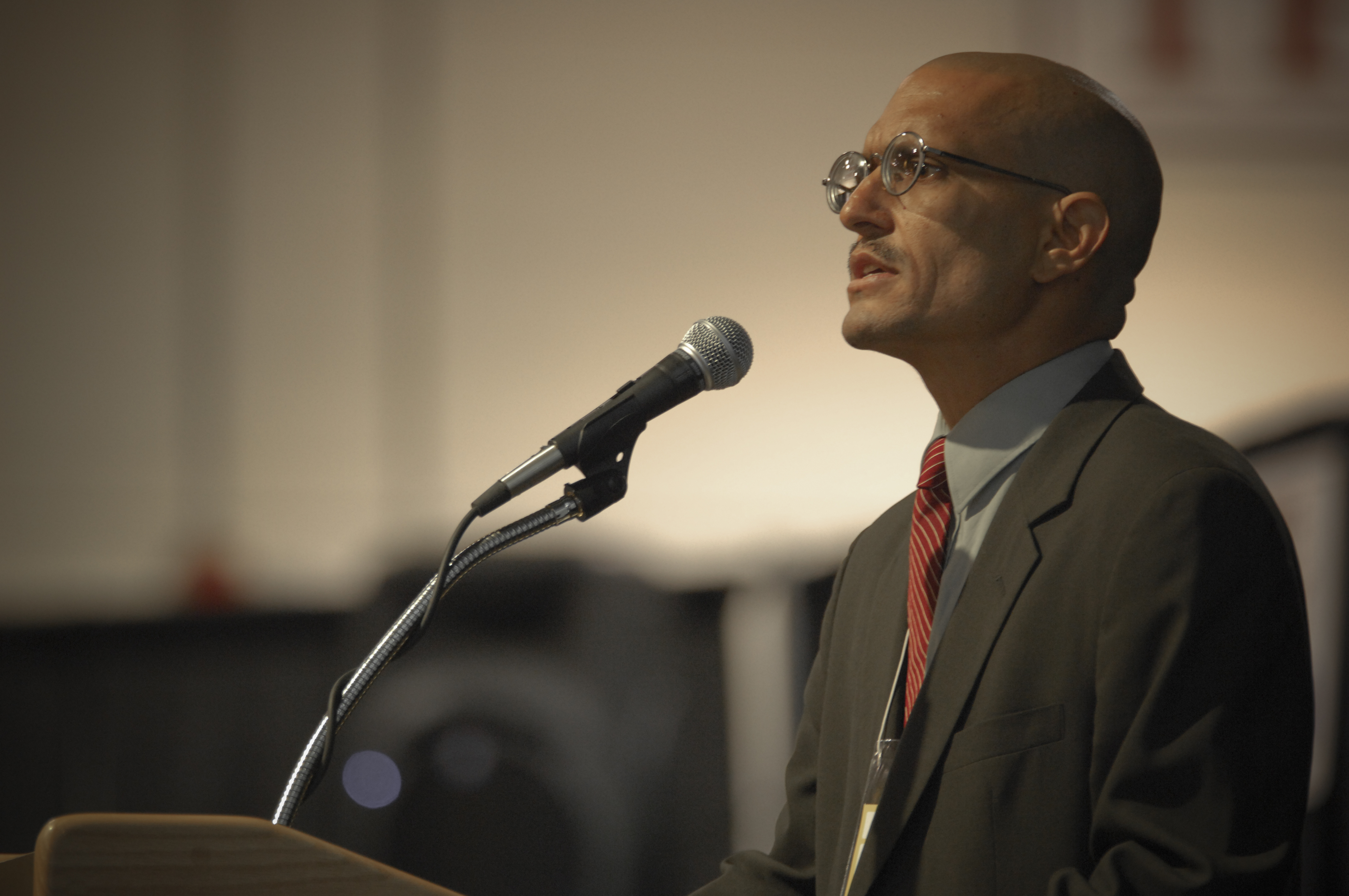 Yes Men member, Jacque Servin (aka "Shepard Wolff" aka "Andy Bichlbaum"), presents Exxon's new human flesh-derived "Vivoleum" future fuel at a Keynote Luncheon at the GO-Expo 2007 (Oil and Gas Exposition) in Calgary, Alberta. Alberta is currently home to the 2nd largest reserve of oil in the World when its Oilsands are included, so this is a particularly fitting venue for this "product" announcement. The oilmen listened to the lecture with attention, and then lit "commemorative candles" supposedly made of Vivoleum obtained from the flesh of an "Exxon janitor" who died as a result of cleaning up a toxic spill. The audience only reacted when the janitor, in a video tribute, announced that he wished to be transformed into candles after his death, and all became crystal-clear.